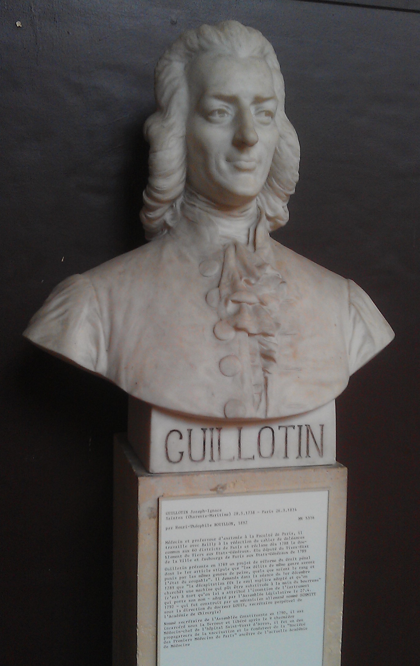 The Bust of Joseph-Ignace Guillotin is displayed at the jeu de paume court in Versailles.